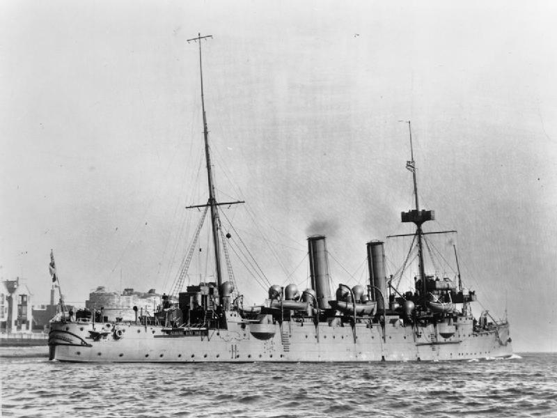 Photograph of British Astraea class cruiser HMS Forte.